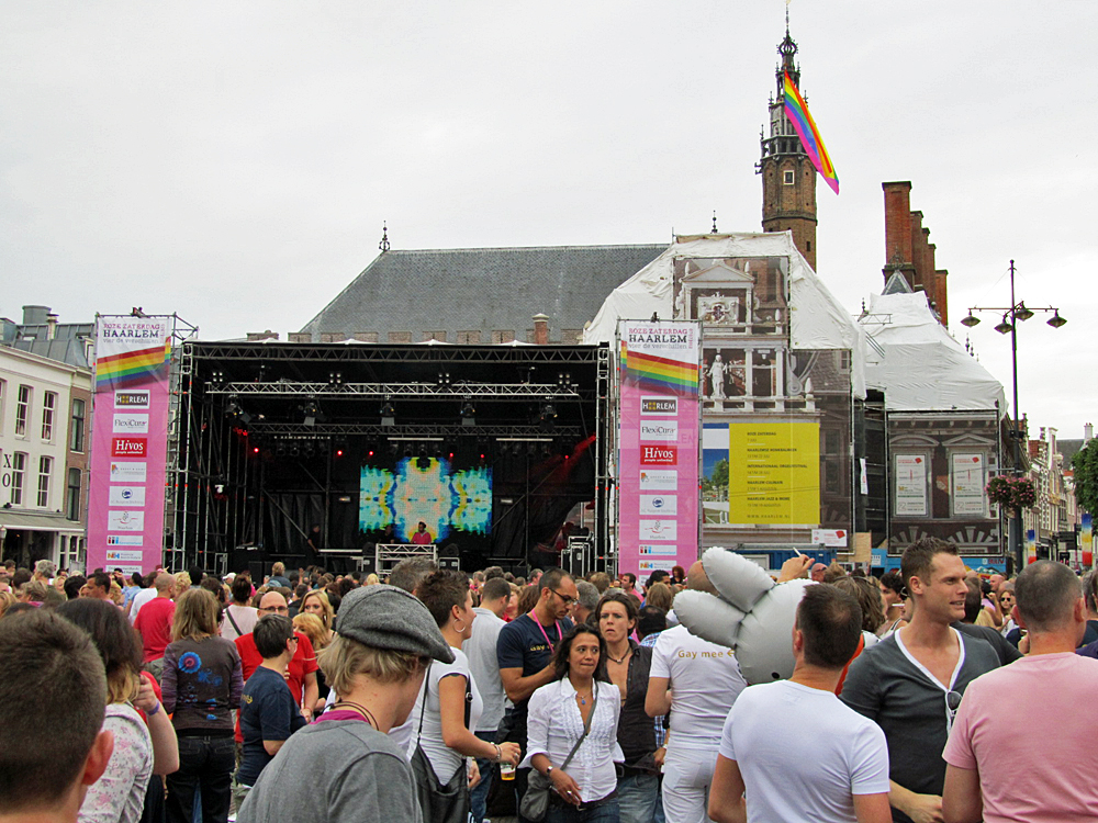 Main stage at the 2012 edition of Pink Saturday (Roze Zaterdag), the Dutch equivalent of the Gay Pride Parade, which was held in Haarlem